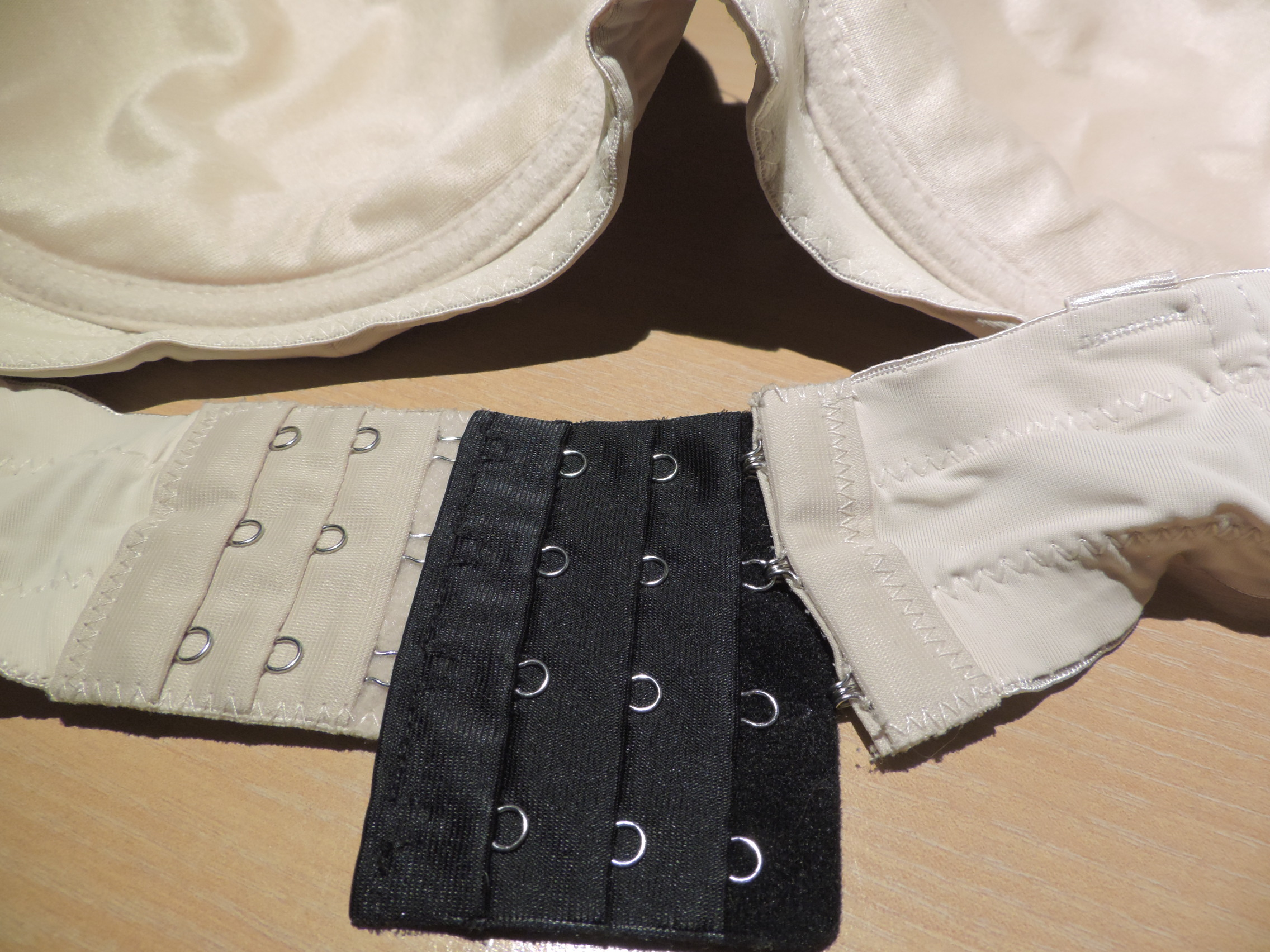 Brassiere extension